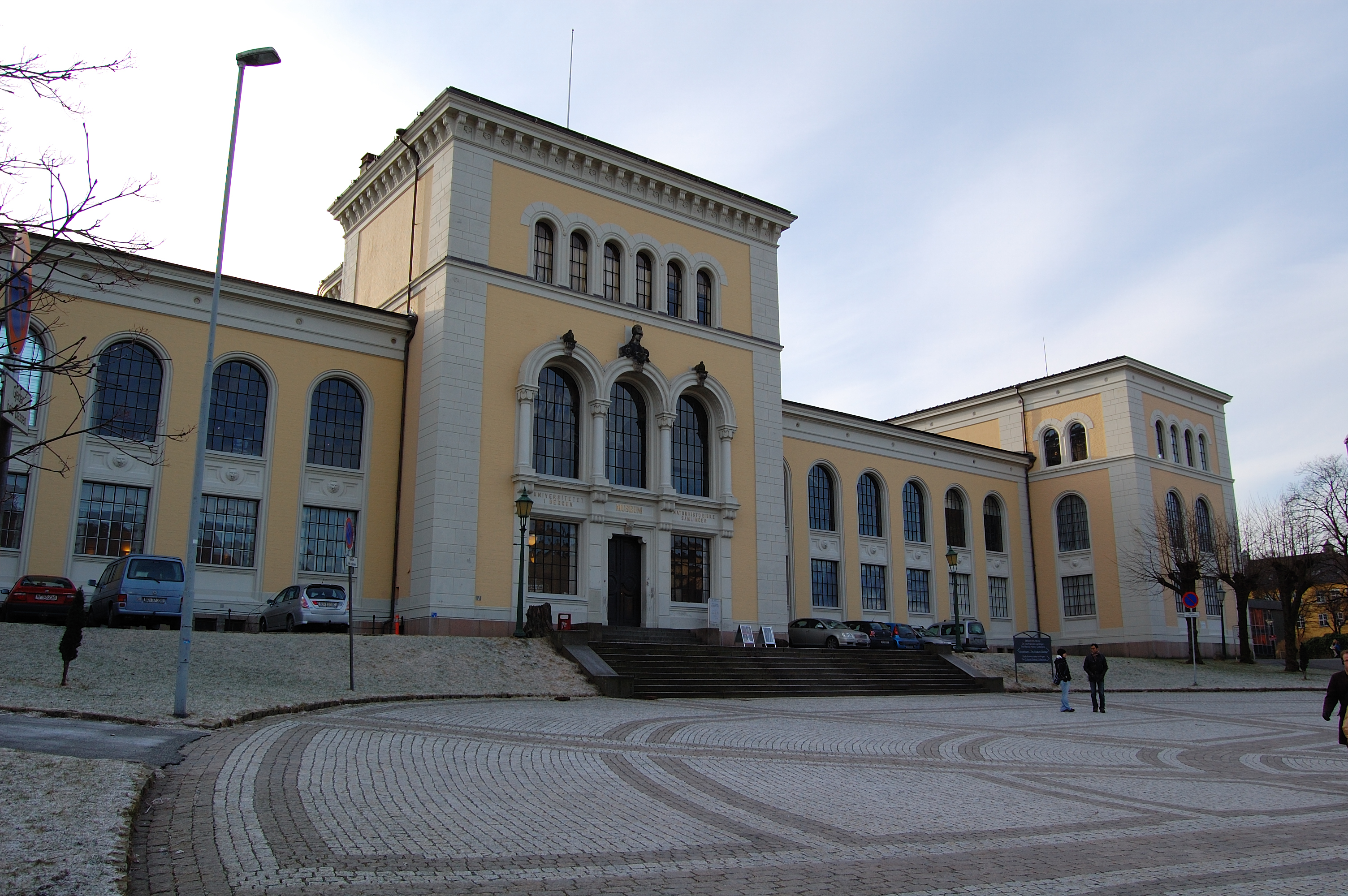 Bergen natural history museum, Norway